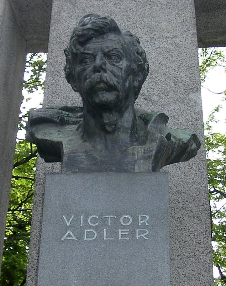 Republikdenkmal in Vienna: Bust of Victor Adler, sculpted by Anton Hanak